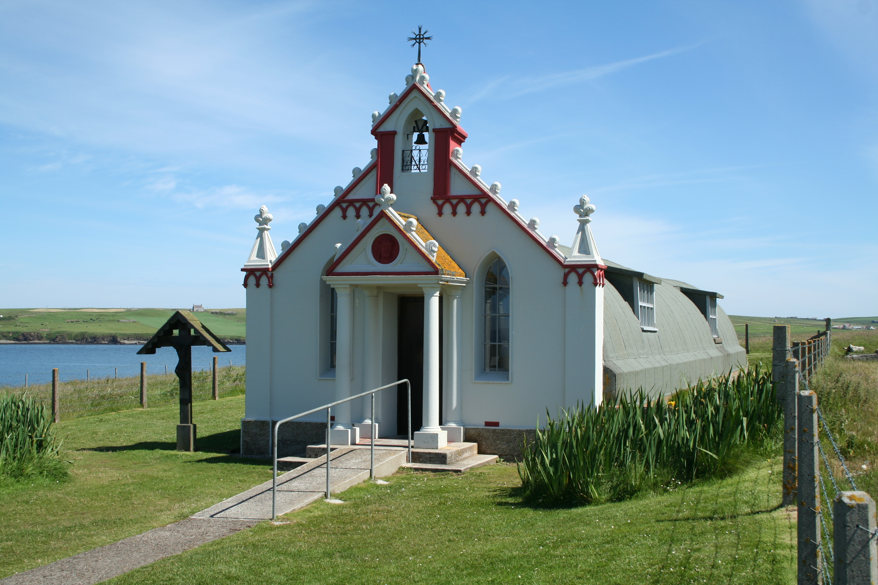 The Italian Chapel on Orkney Islands. Outside picture taken by me. The chapel was built by Italian POW's during WWII, from a Nissen Hut.